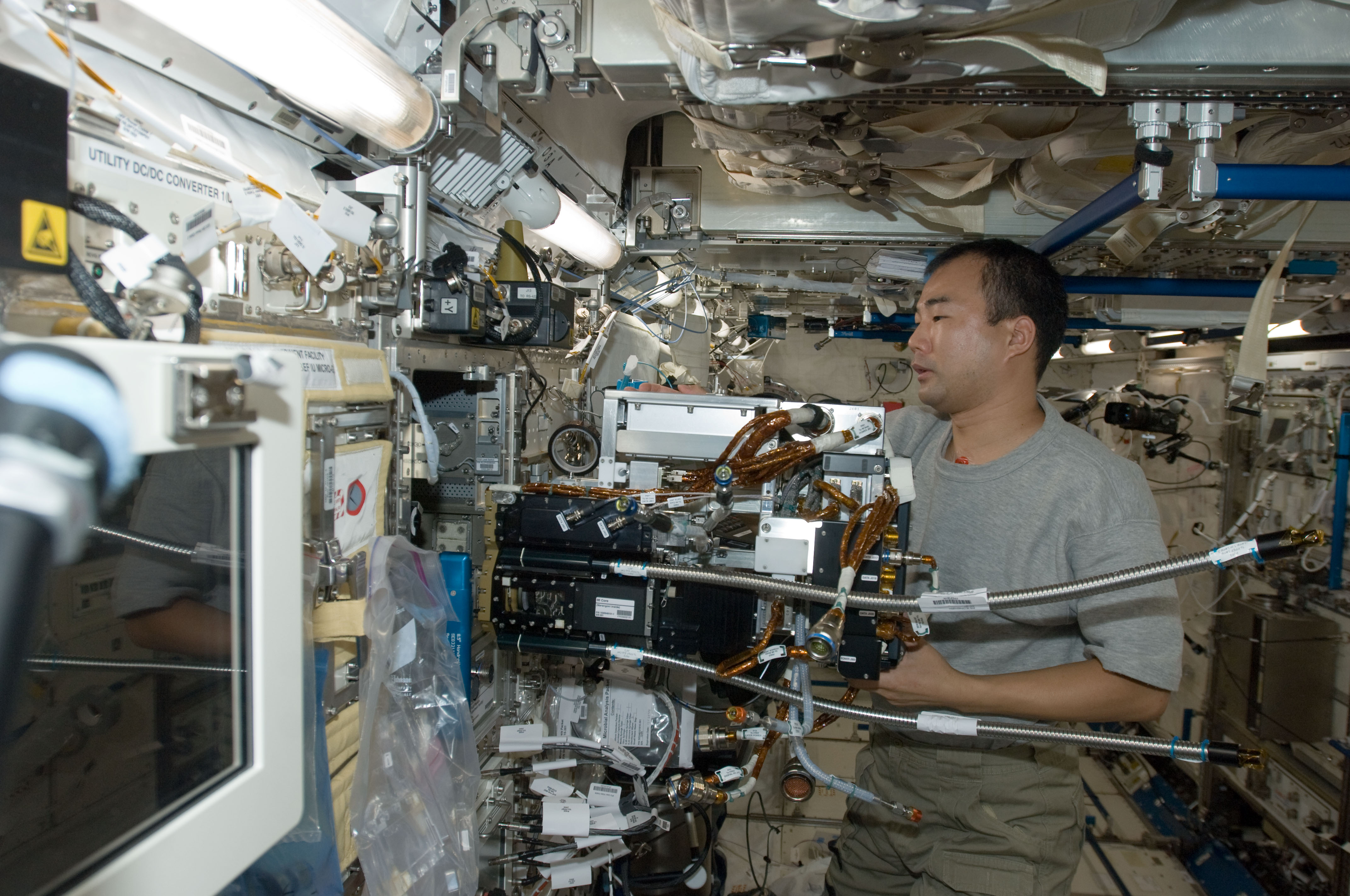 Japan Aerospace Exploration Agency (JAXA) astronaut Soichi Noguchi, Expedition 22 flight engineer, works with Fluid Physics Experiment Facility/Marangoni Surface (FPEF MS) Core hardware in the Kibo laboratory of the International Space Station. The Marangoni convection experiment in the FPEF examines fluid tension flow in micro-G.